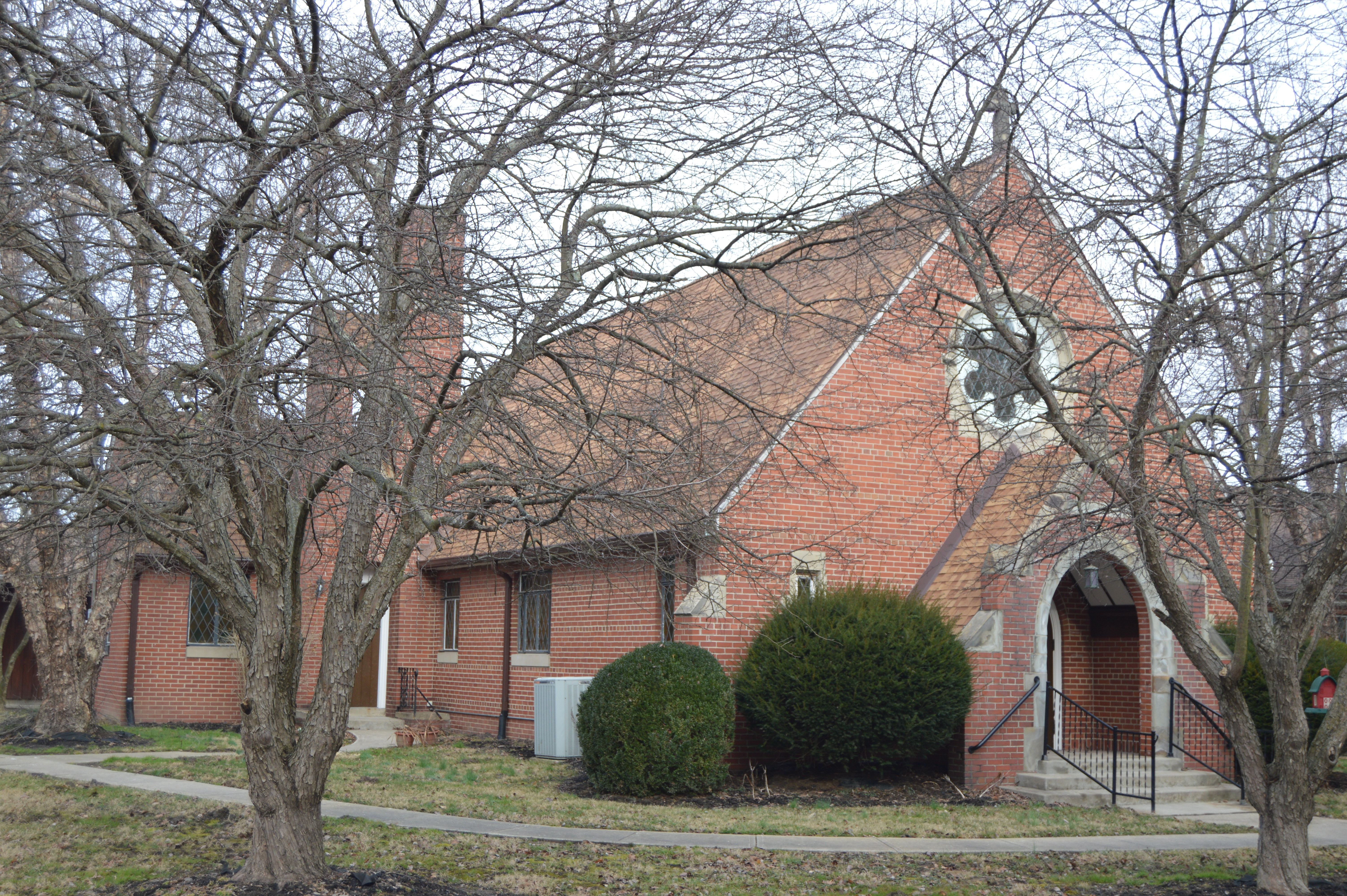 Front and southern side of St. Sylvester's Catholic Church, located at 119 N. Second Street in Zaleski, Ohio, United States.